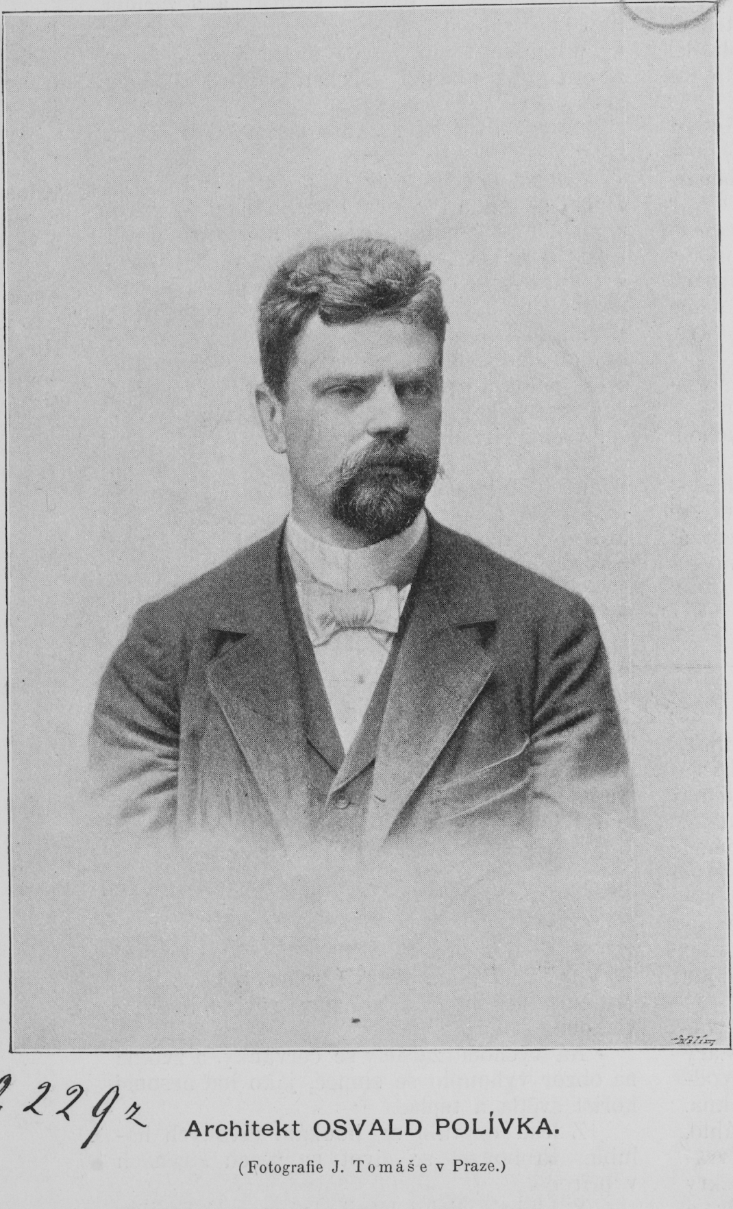 Portrait of Osvald Polívka (1859 - 1931), Czech architect.